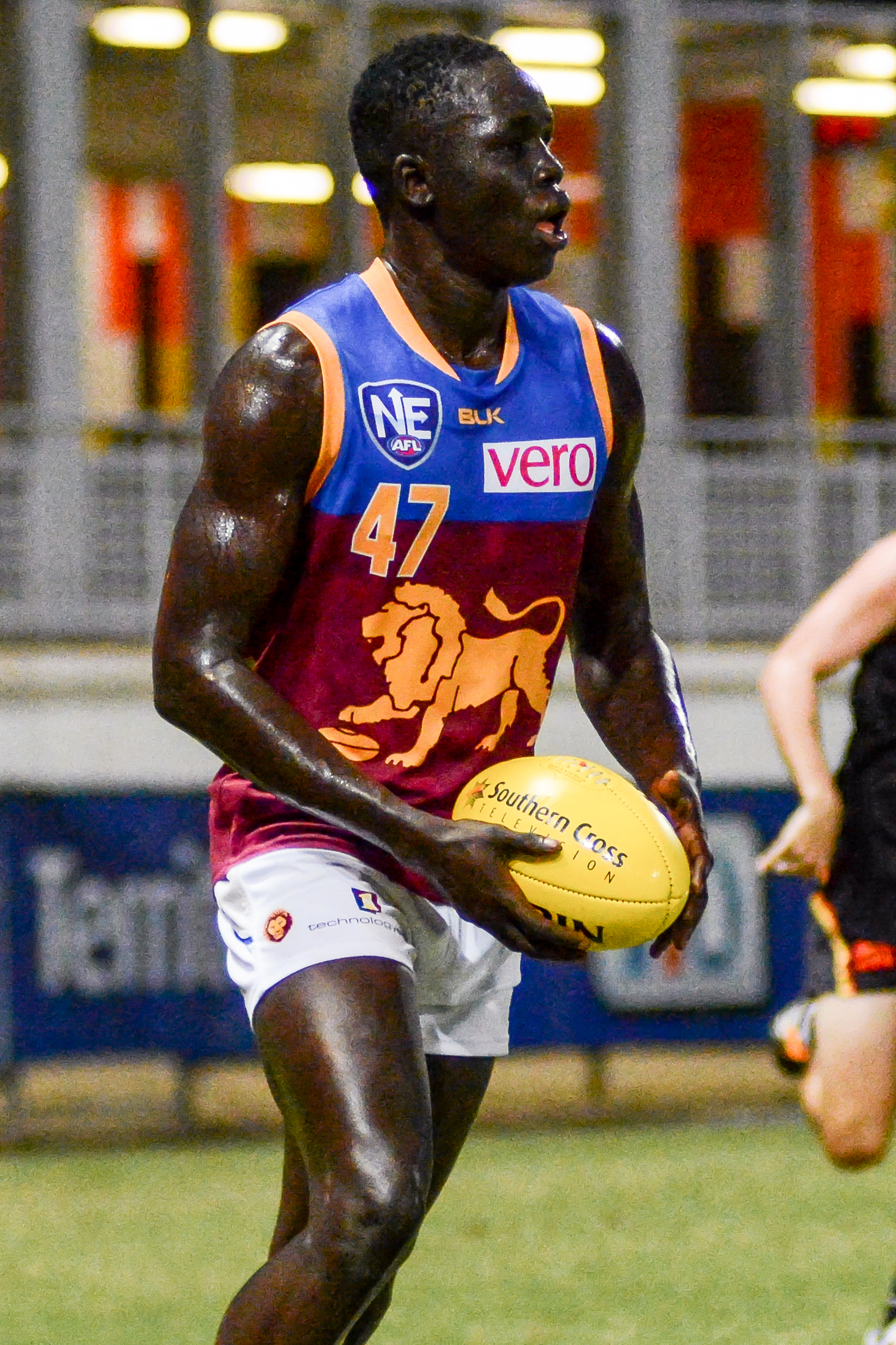 Reuben William playing for Brisbane Lions reserves in June 2016